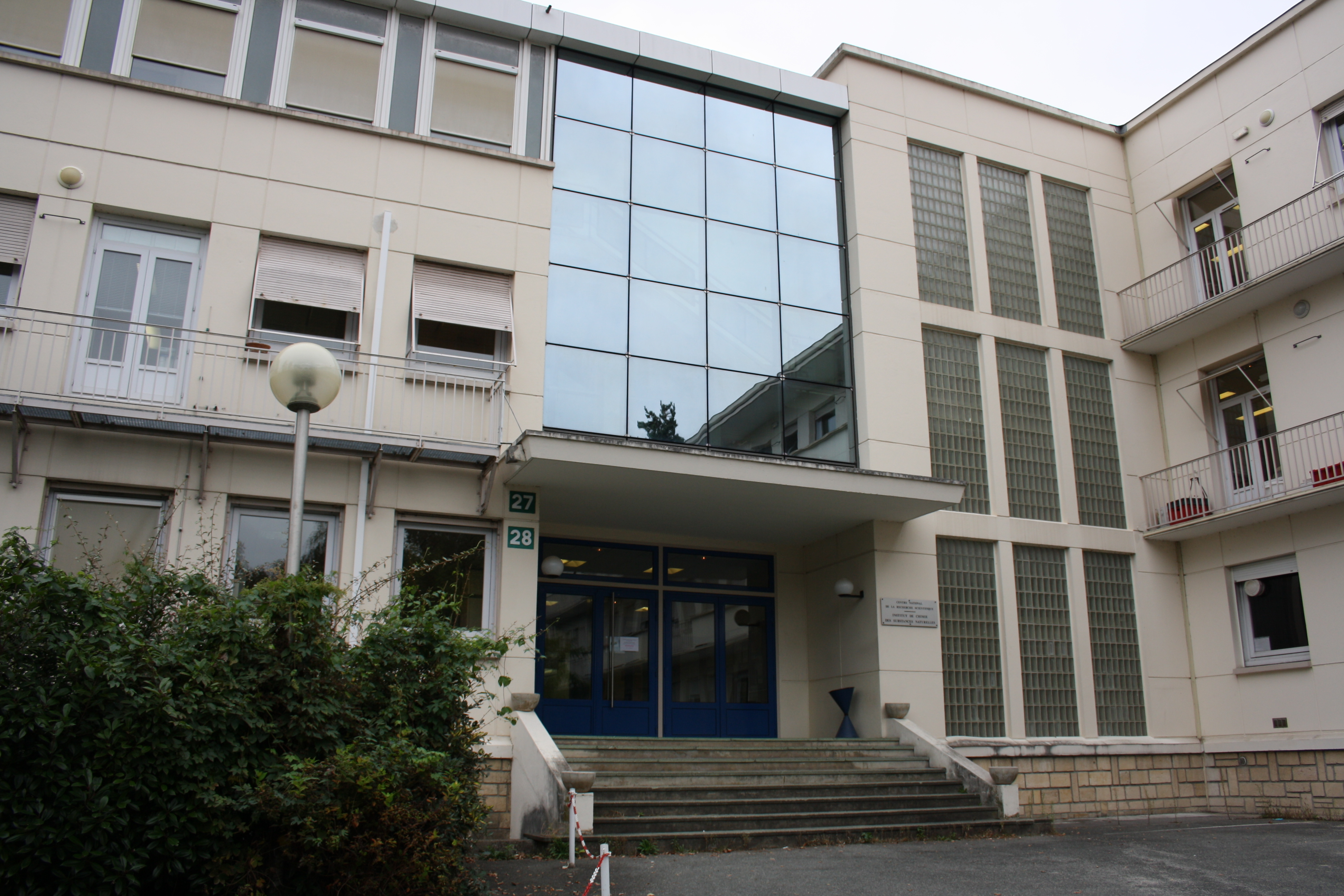 Visit of the Institut de Chimie des Substances Naturelles ("Institute for the chemistry of natural substances"), a institute part of the French National Centre for Scientific Research and located in Gif-sur-Yvette, France.